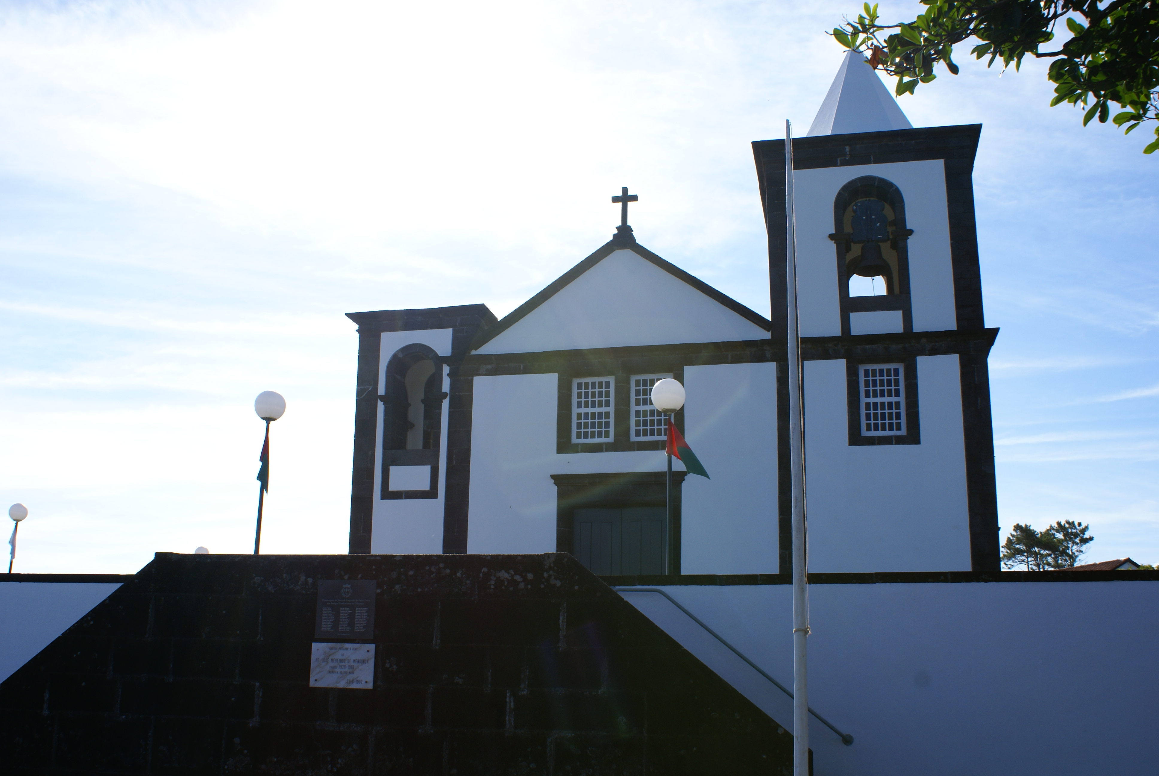 Igreja de Santa Luzia, fachada, concelho de São Roque do Pico, ilha do Pico, Açores, Portugal